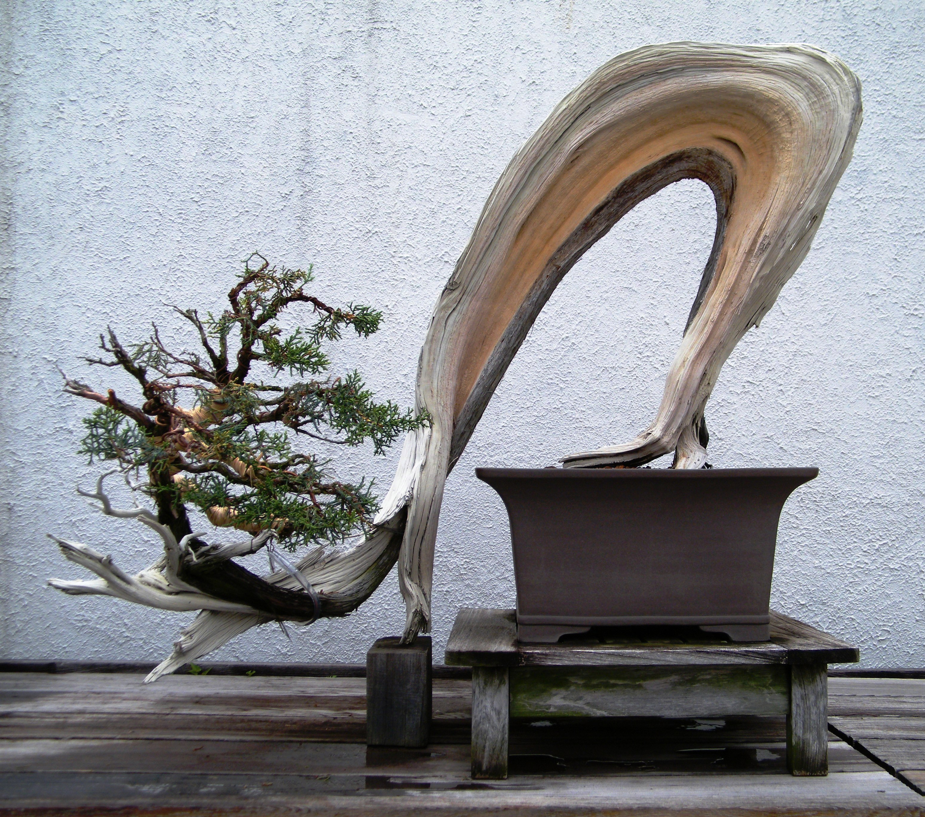 A California Juniper (Juniperus californica) bonsai on display at the National Bonsai & Penjing Museum at the United States National Arboretum. According to the tree's display placard, it has been in training since 1968. It was donated by Harry Hirai.